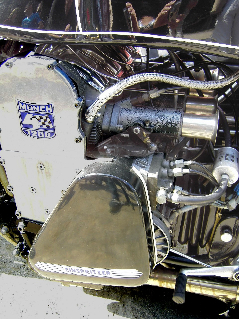 Kugelfischer Gasoline Injection on a Münch Motorcycle Typ 1200 TTS/E